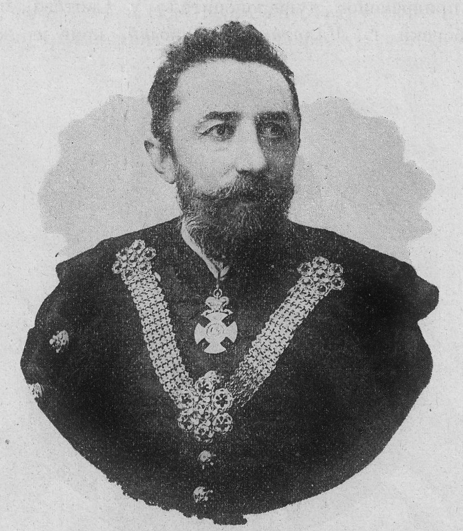 Stevan Pecija Popović (1845-1909), Serbian lawyer and mayor of Novi Sad. Taken from the 1900 edition of the calendar Orao. Srpski (latinica): Stevan Pecija Popović (1845-1909), srpski pravnik i gradonačelnik Novog Sada. Preuzeto iz izdanja kalendara Orao za 1900. godinu.